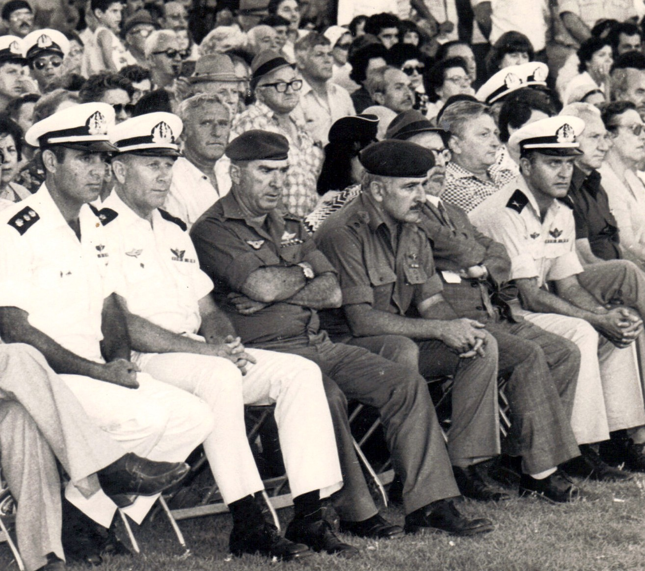 IDF-memorial meeting with senior members of the Israel military officers and government officials. Left to right:Avraham Ashur, Ze'ev Almog, Rafael Eitan, unknown, unknown, Dov Ram, Haim Bar-Lev